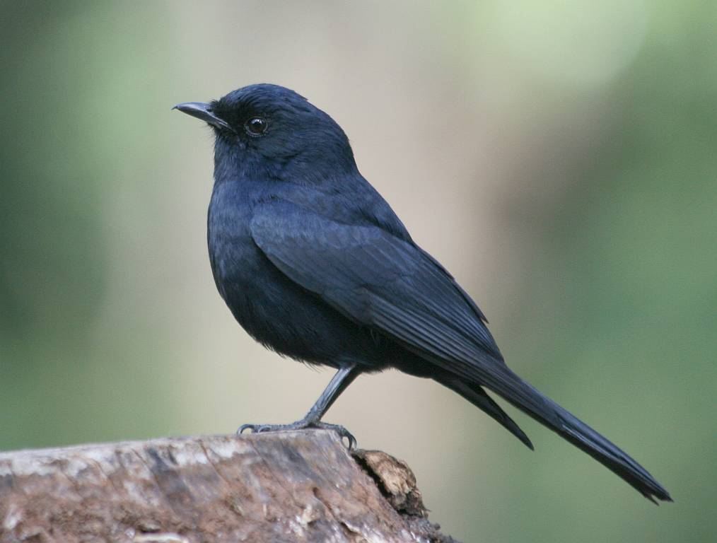 Southern Black-Flycatcher (Melaenornis pammelaina). Location: KwaZulu-Natal Botanical Garden, Pietermaritzburg, South Africa.